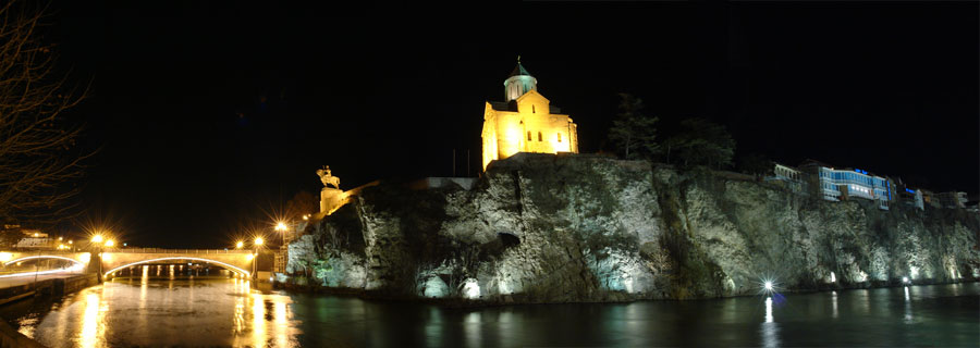 Panoramic Nightview of Metekhi Church and Tbilisi